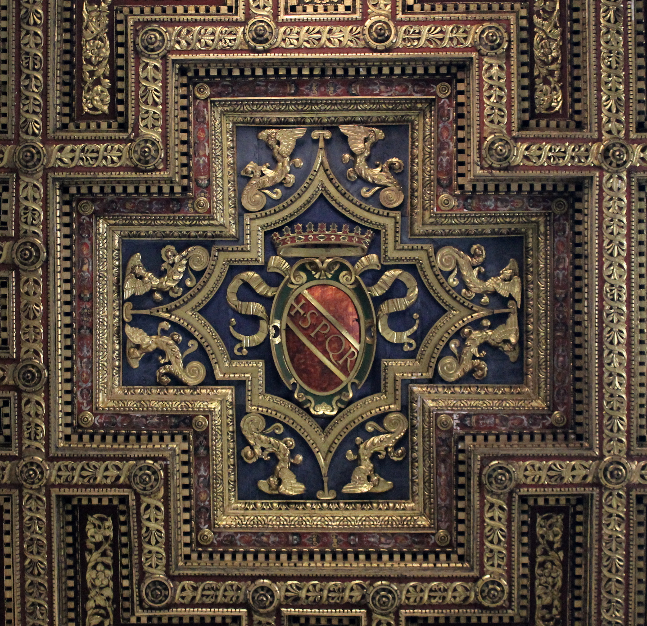 The coat of arms of the city of Rome, as depicted in a coffered ceiling in the Basilica of Santa Maria in Aracoeli on the Capitoline Hill, Rome.